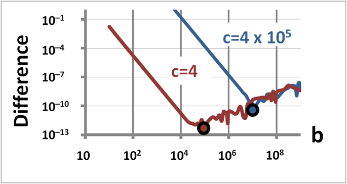 Difference in root of quadratic equation using Excel. x^2 + b x + c = 0 as a function of b for two values of c; the direct evaluation of the quadratic formula is compared with the approximation for widely spaced roots, which doesn't have a round-off problem. The squiggly behavior at large b-values is round-off noise.